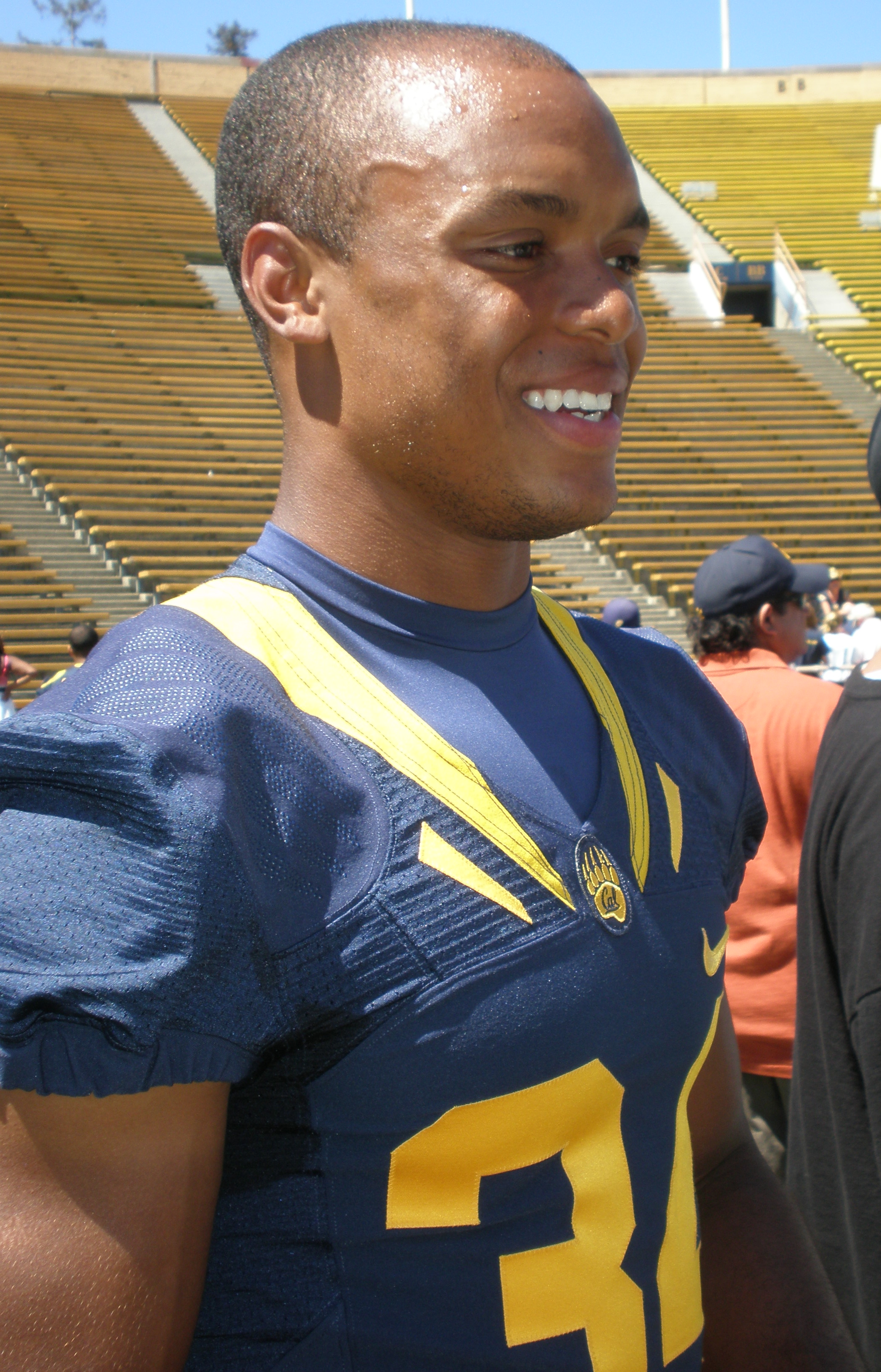 Cal running back Shane Vereen at the 2009 Cal Fan Appreciation Day at Memorial Stadium in Berkeley, California.